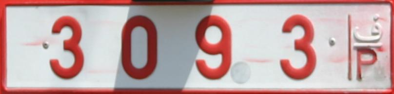 Palestinian license plate for officials